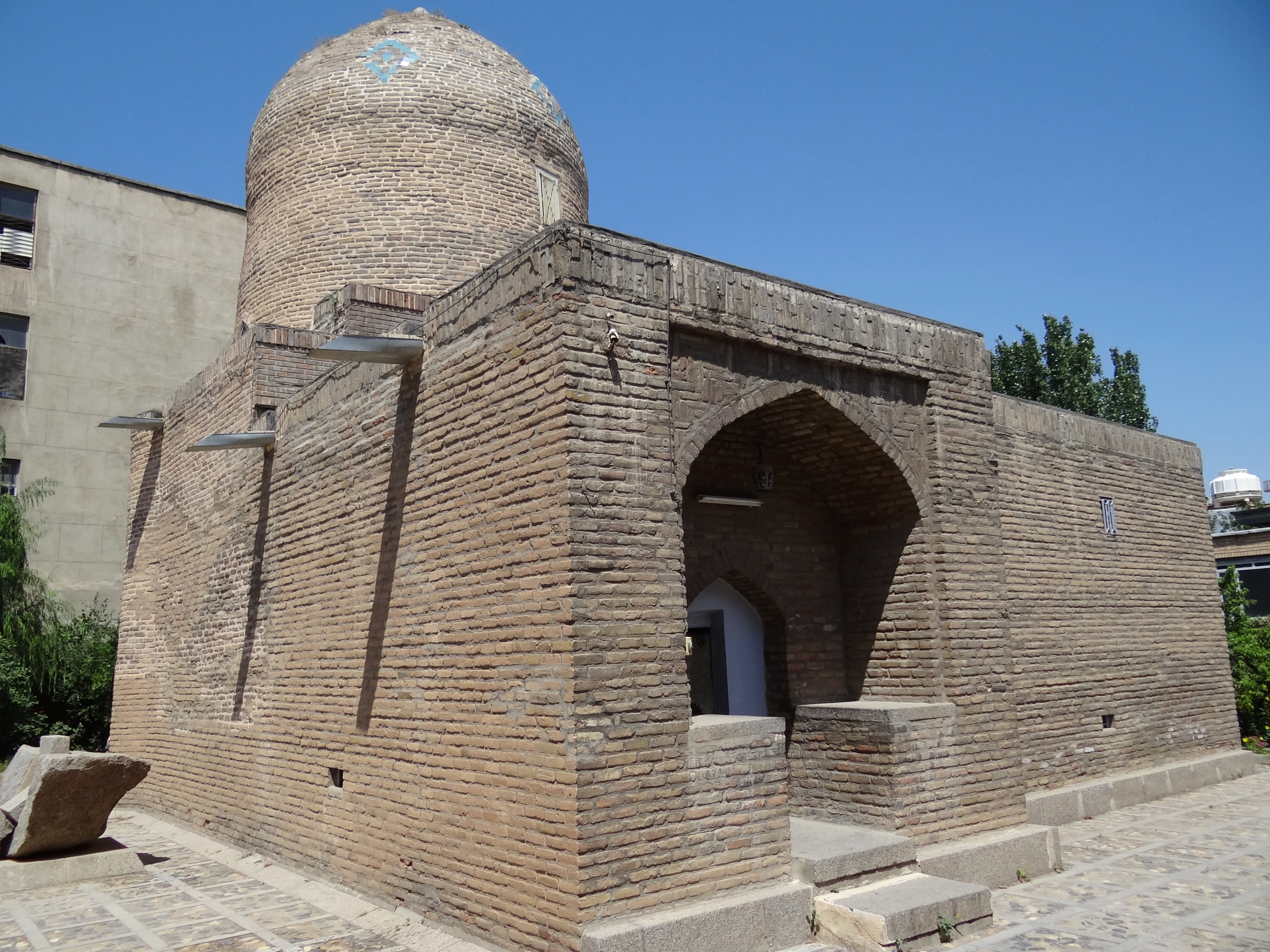 Tomb of Esther and Mordecai - Hamadan - Western Iran